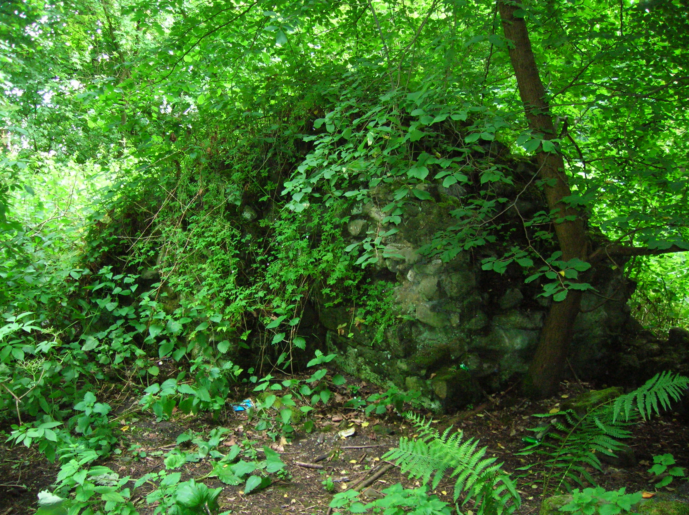 Crosbie Castle, corner walls, Troon, South Ayrshire, Scotland.